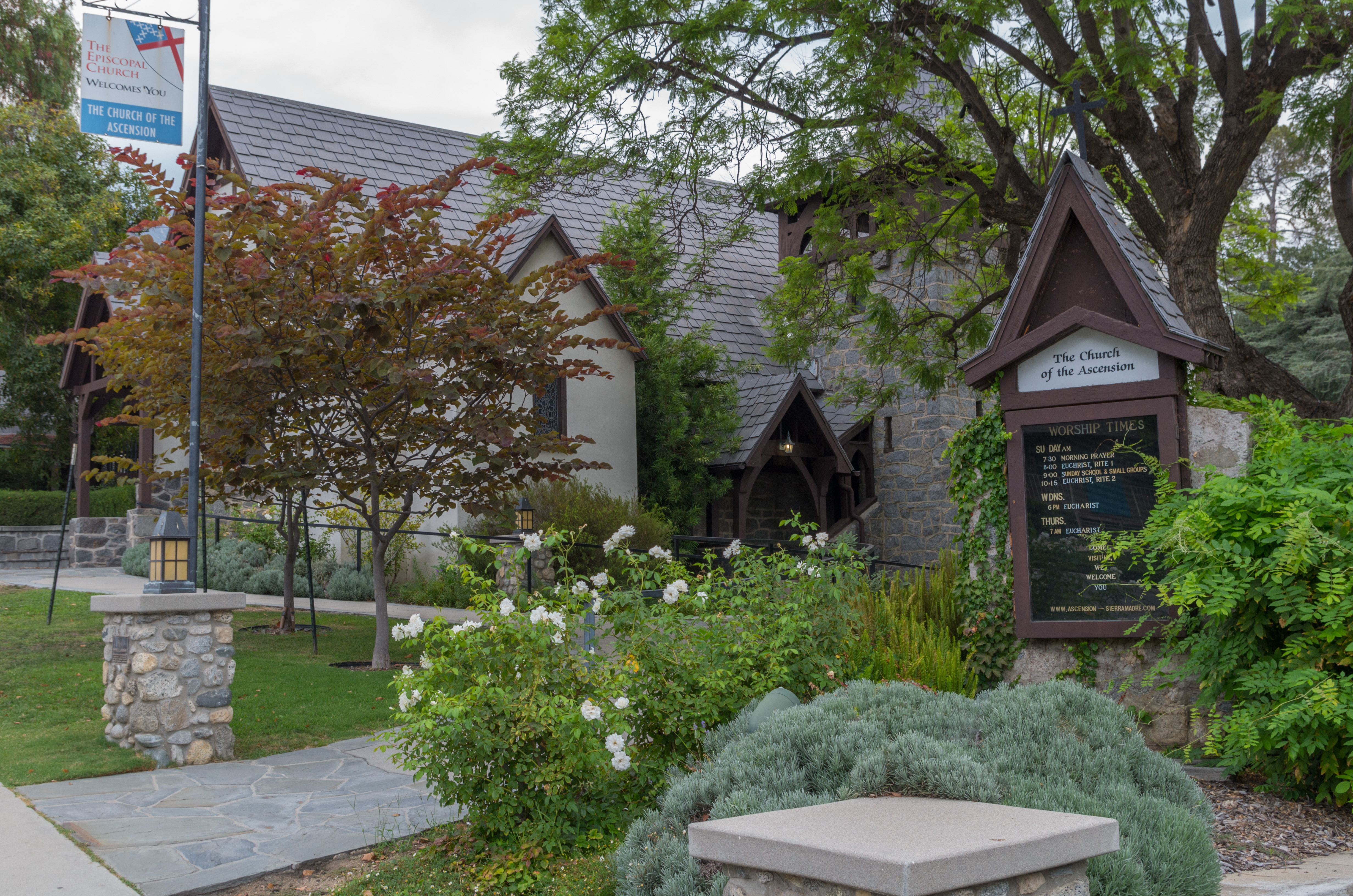 Episcopal Church of the Ascension, 25 E. Laurel Ave. Sierra Madre